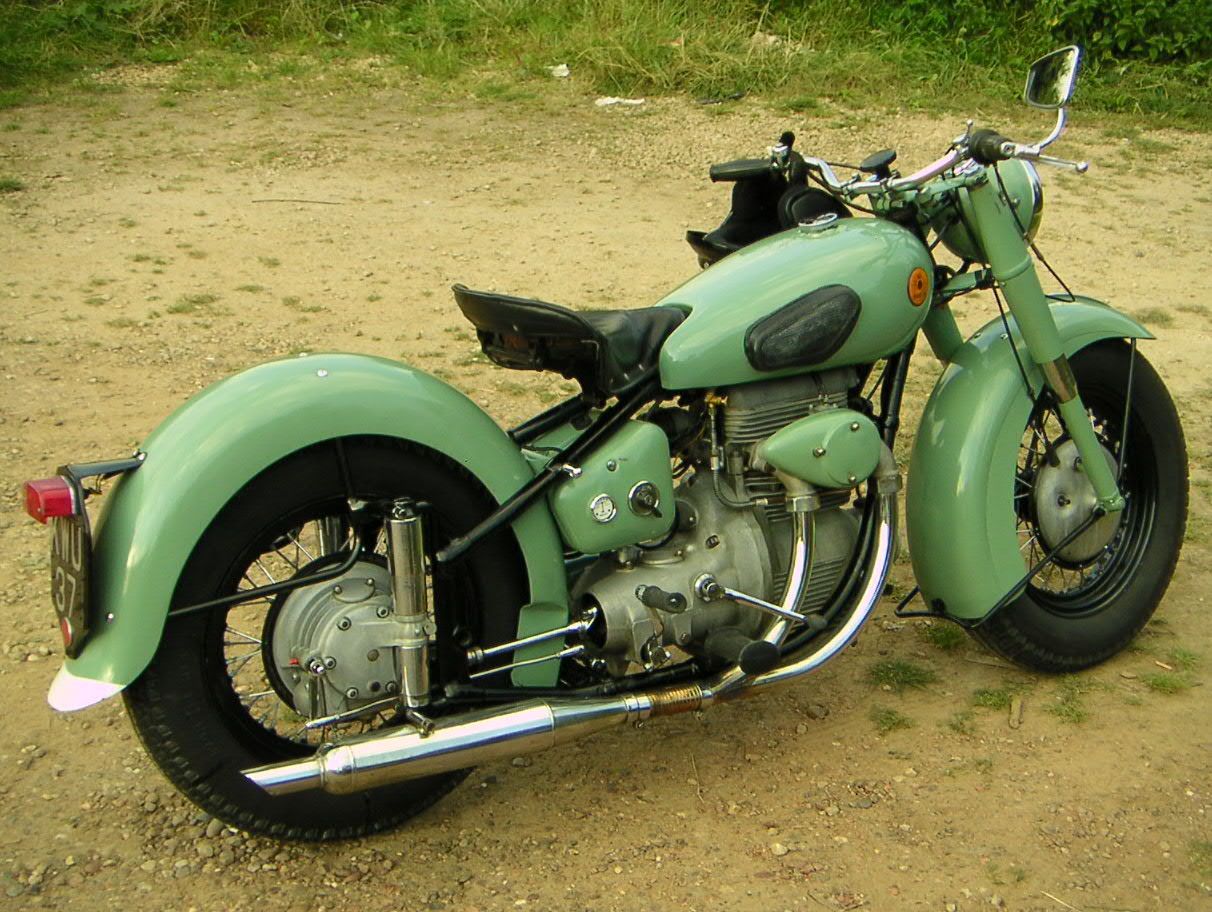 Road-legal Sunbeam S7 captured in flat-light at the highway-end/river bank, Boat Lane, Hazelford Ferry (River Trent), Bleasby, Nottinghamshire, England, UK by Minolta Dimage X20. Owned by a local resident out for an early-evening ride on 6 September 2007. Some aspects of the restoration may not be faithful to the original specification, e.g., the rear lamp and bracket assembly.